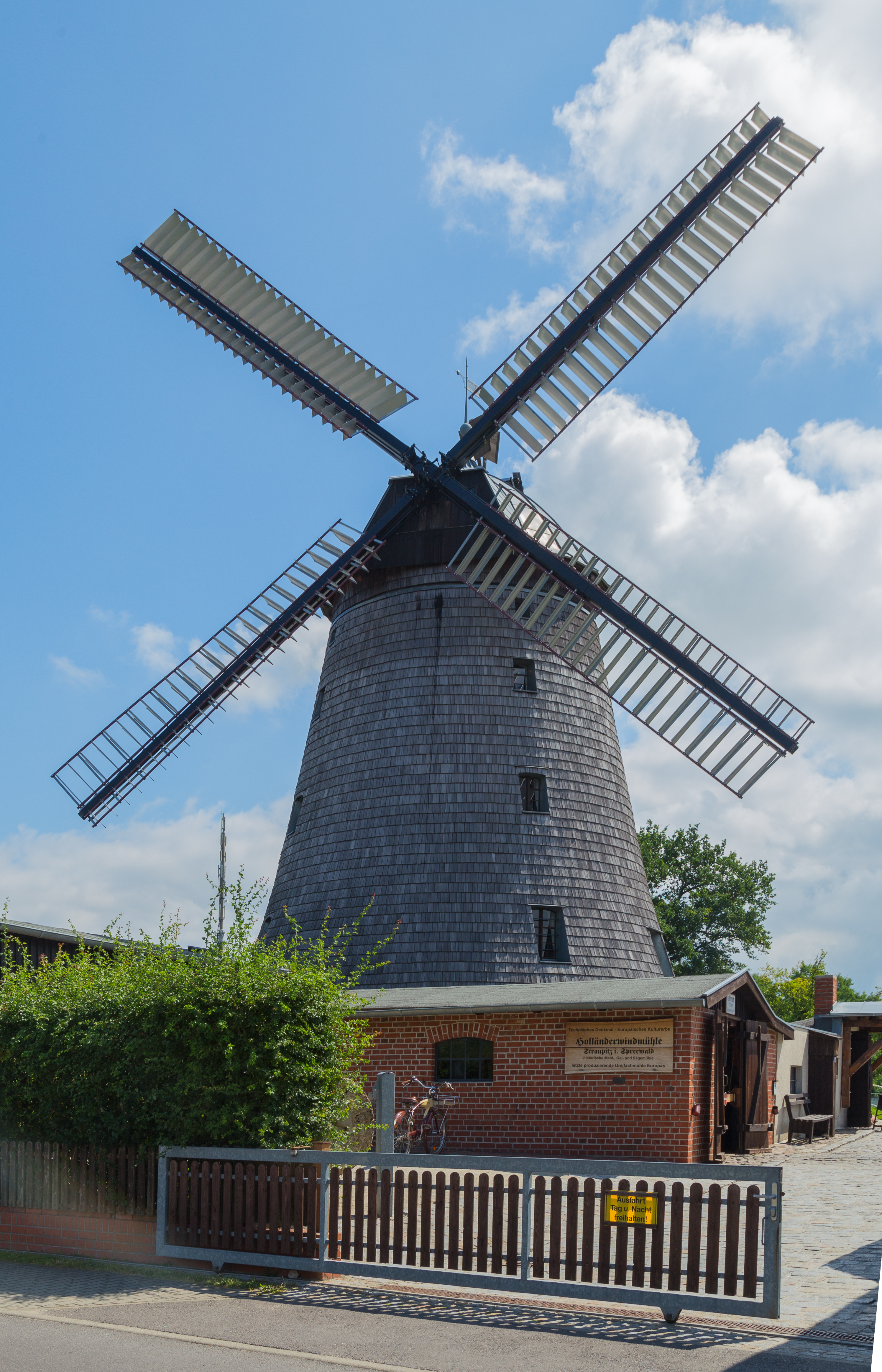 Windmill in Straupitz, Landkreis Dahme-Spreewald, Brandenburg, Germany.